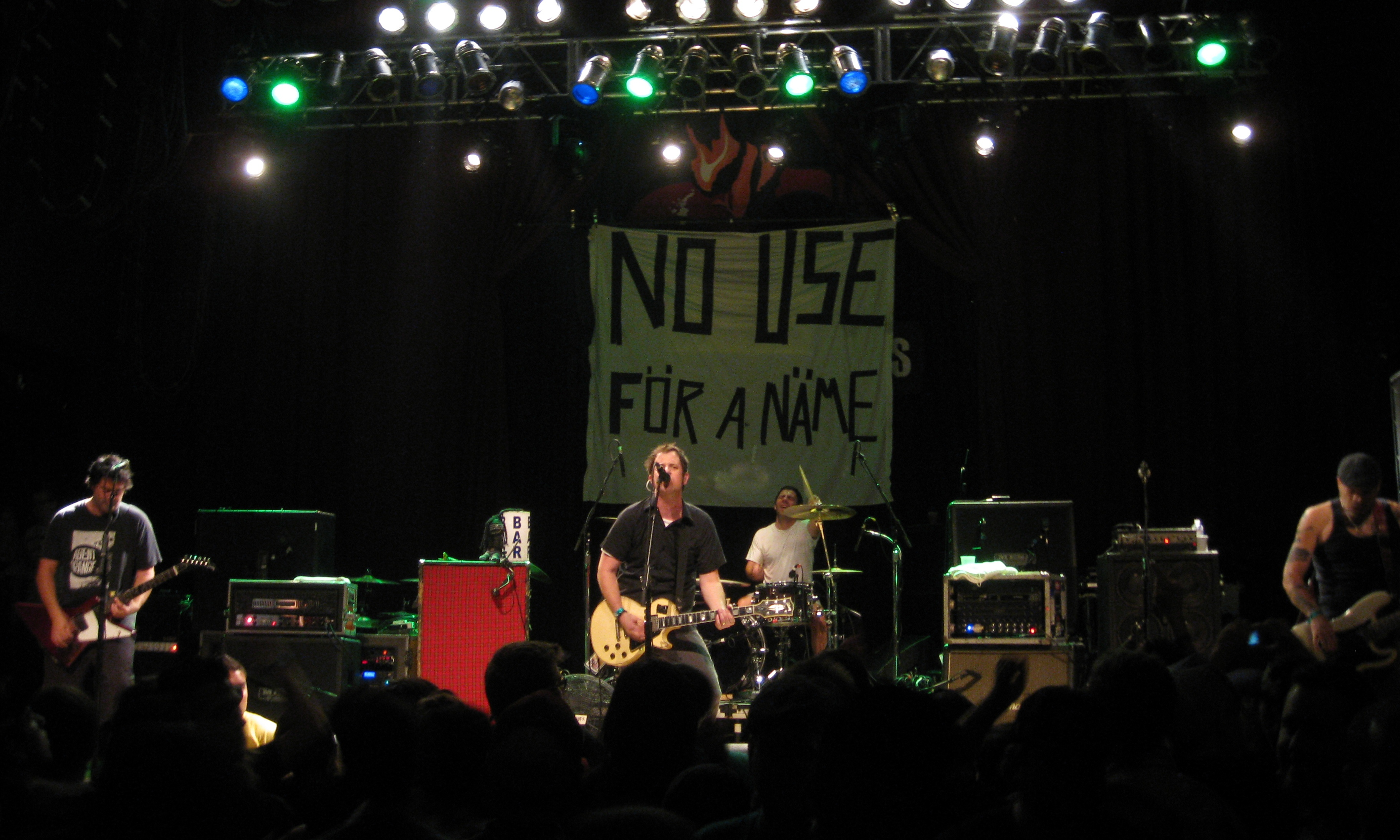 No Use for a Name performing January 9, 2012 at the House of Blues in San Diego, California. Left to right: guitarist Chris Rest, singer/guitarist Tony Sly, drummer Boz Rivera, and bassist Matt Riddle.